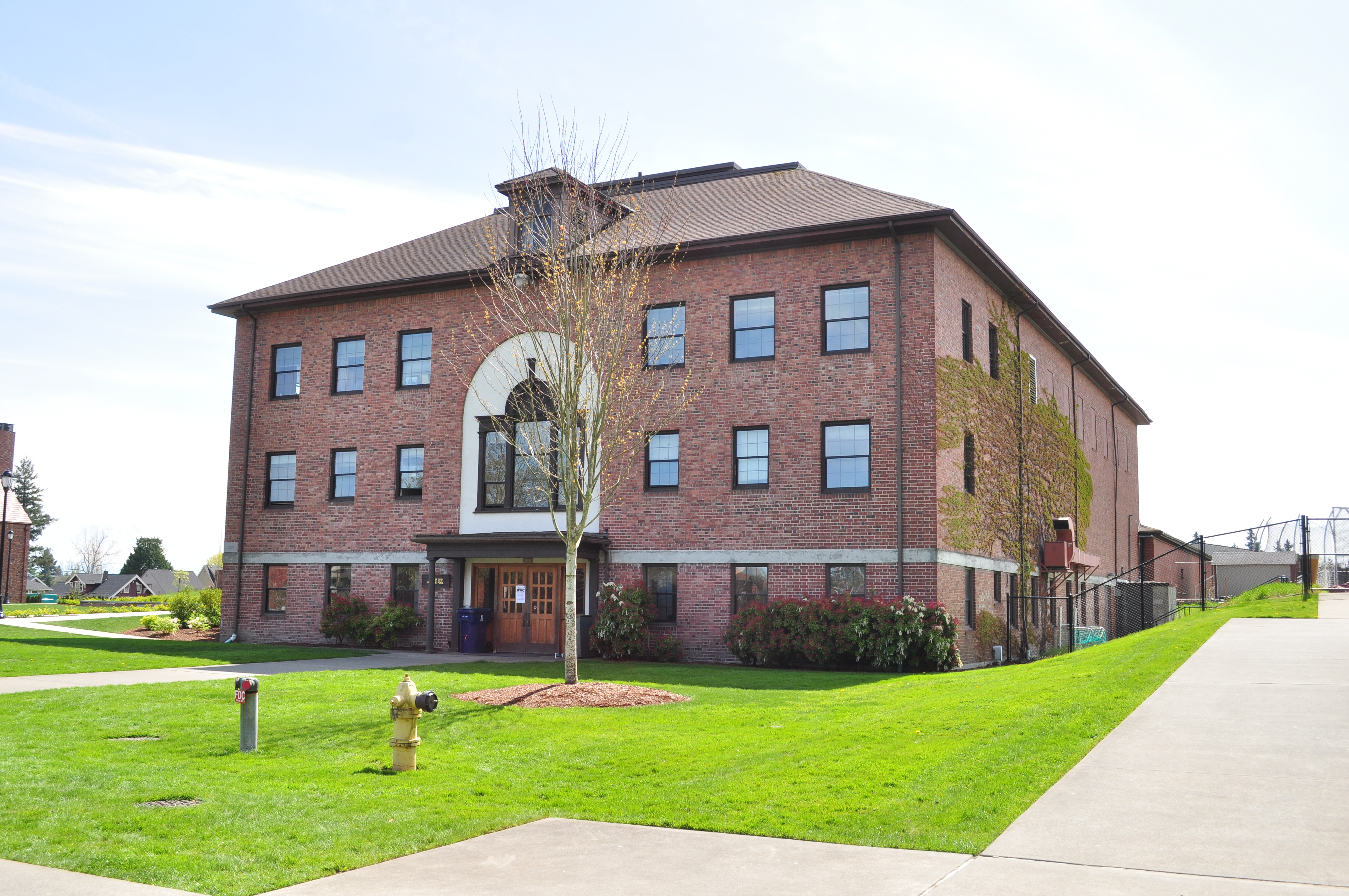 Warner Gym, University of Puget Sound, Tacoma, Washington.